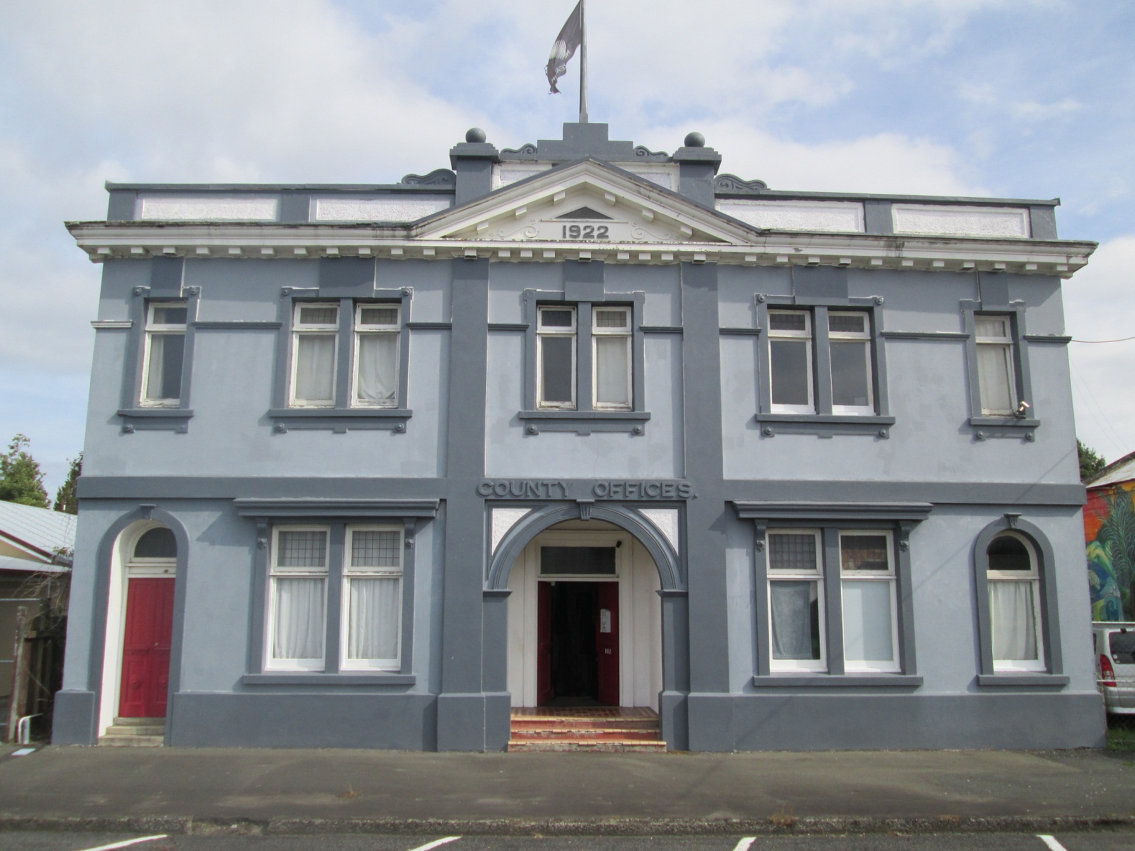 The Waimarino County Council offices building was designed as a result of a competition held in 1918 for the purpose of replacing the old county offices burnt down in the fire of that year. Architect F.A. Carter won the competition but plans were abandoned due to high construction costs. The present building was built to a modified design of the County Engineer, Mr Hogg, but as he redesigned Mr Carter's original plans, some credit should be given to the former architect of the building.